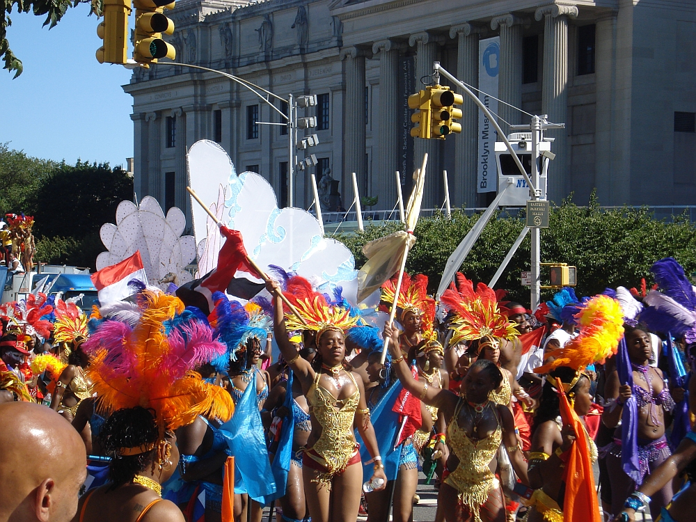 West Indian Day Parade-goers in front of the Brooklyn Museum on Eastern Parkway.